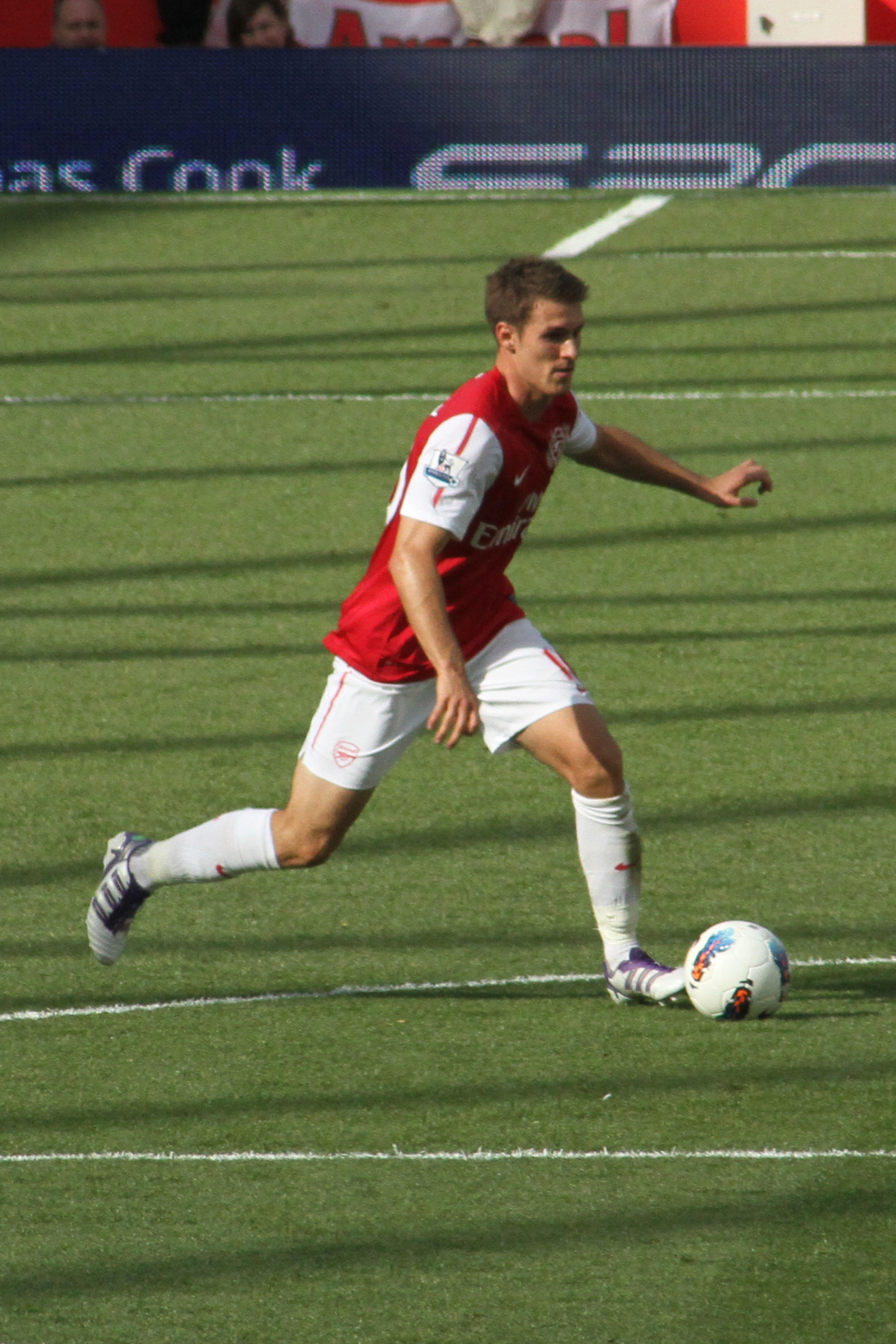 Aaron Ramsey of Arsenal FC playing against Swansea, 10 September 2011.